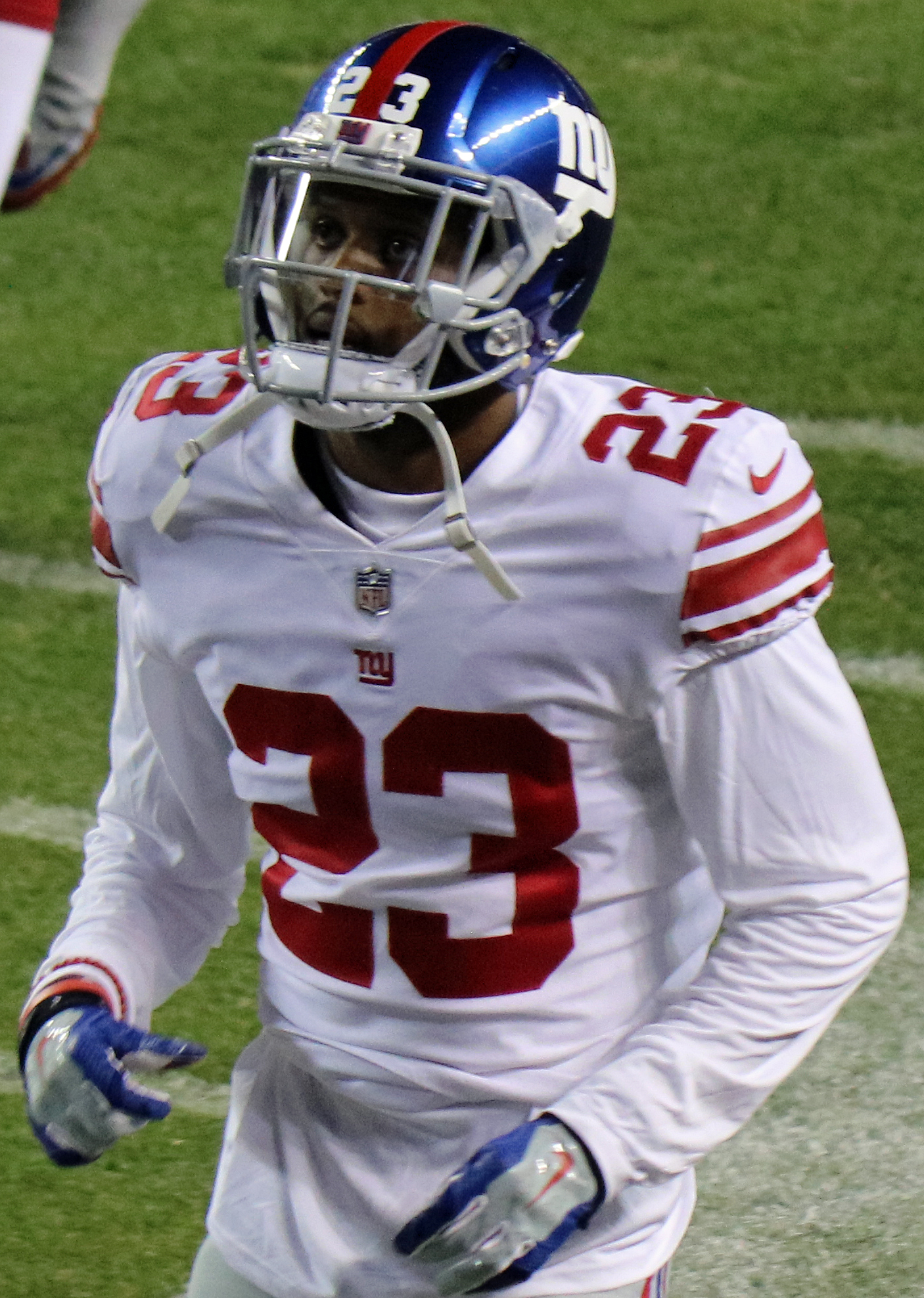 Michael Hunter, a player on the National Football League.